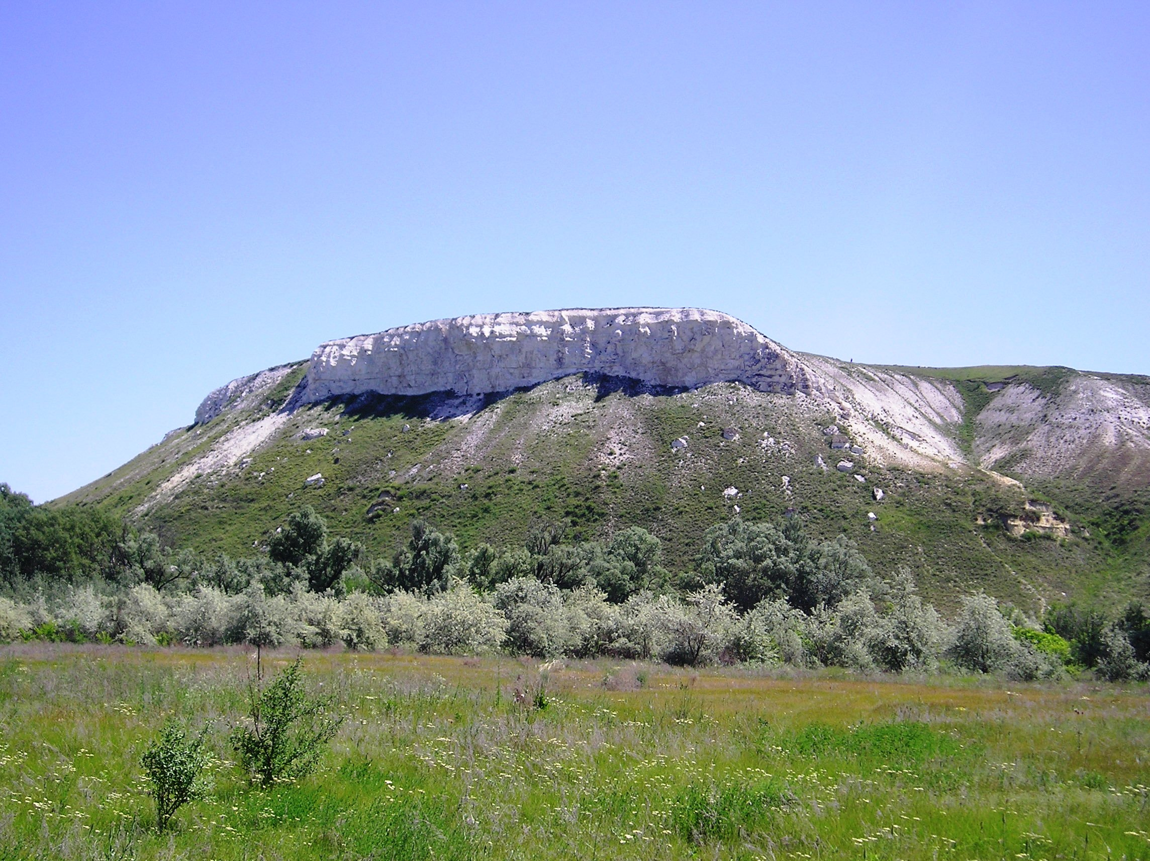 Mare's Head Mountain. Natural Park "Don", Volgograd Region.